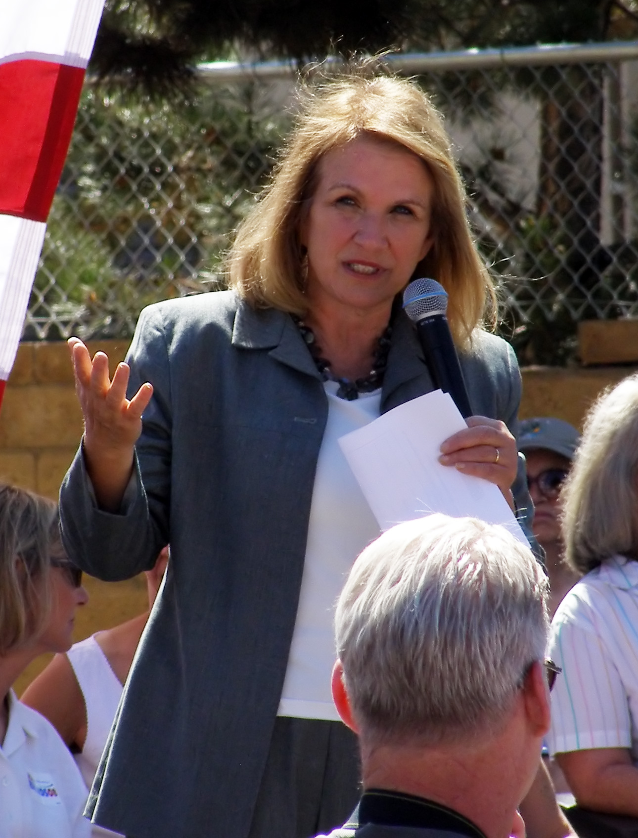 Elizabeth Edwards in Reno, Nevada